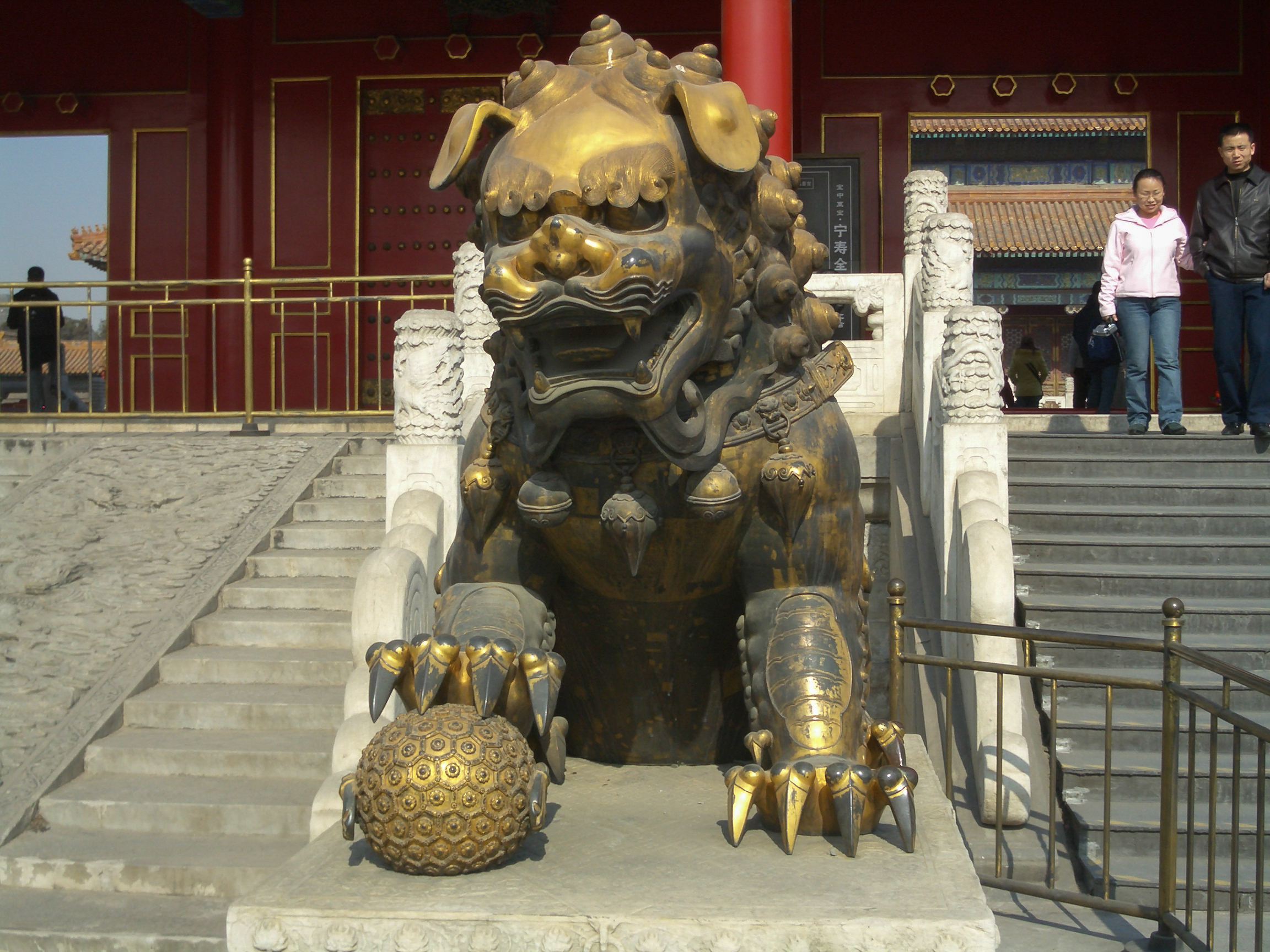 Forbidden City, Beijing, China